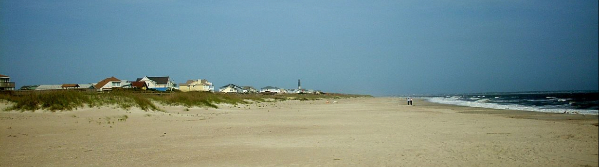 Panoramic view with Oak Island lighthouse in background. This photo is a cropped version of File: Caswell Beach.jpg so as to provide a faux panoramic view of the beach rather than rectangle. This format was chosen to blend in with associated text in the Caswell Beach NC Wikipedia page.